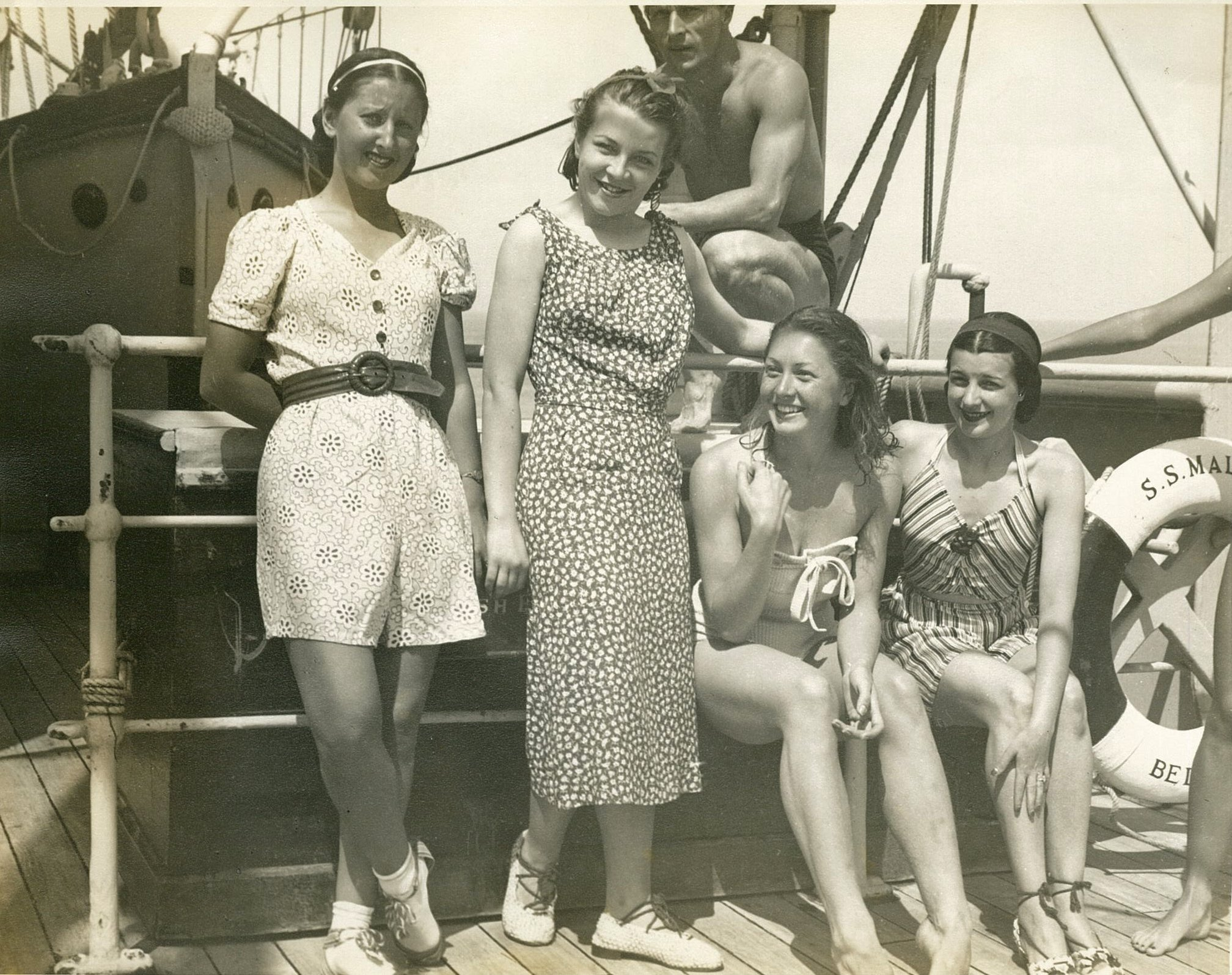 Dancers include Irina Bondireva and Irina Vassilieva Format: Silver gelatin photograph Find more detailed information about this photograph: .au/item/itemDetailPaged.aspx?itemID=421962 Format: Photograph Search for more great images in the State Library's collections: .au/search/SimpleSearch.aspx From the collection of the State Library of New South Wales